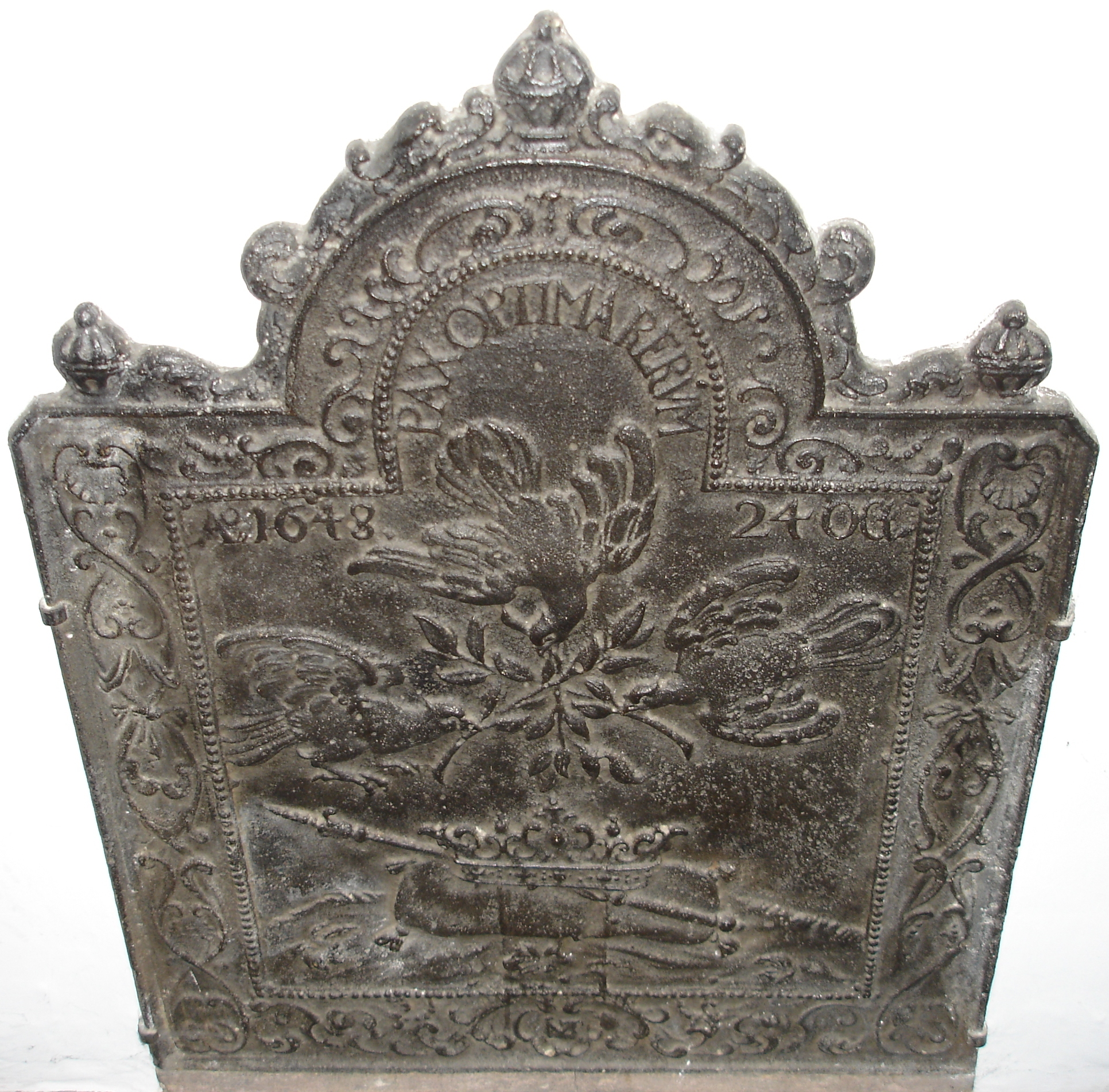 The back-plate of the fire-place in the "Friedenssaal" (hall of peace) in the historical city hall in Münster, Westphalia, Germany